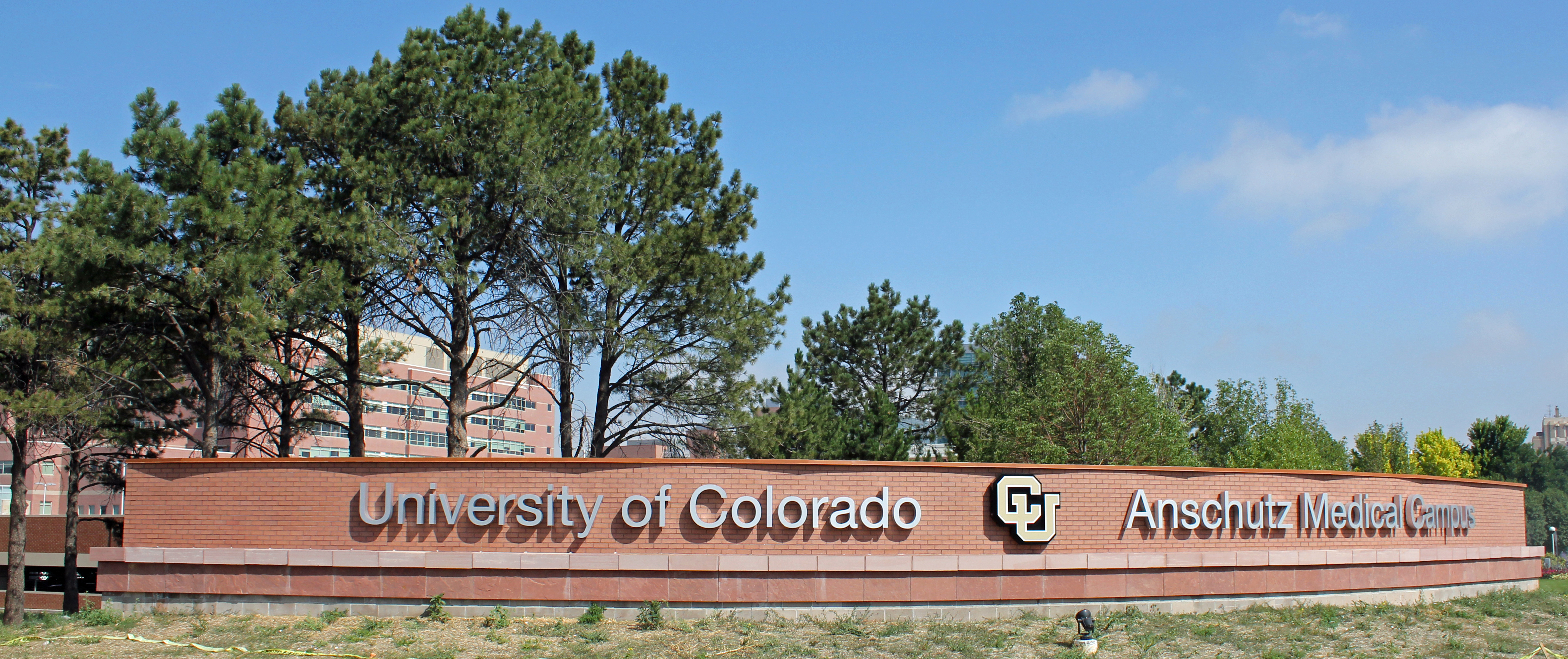 The University of Colorado Anschutz Medical Campus sign, located at east Colfax and Aurora Court in Aurora, Colorado.